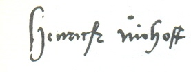 signature of Hendrik Niehoff, Dutch organbuilder